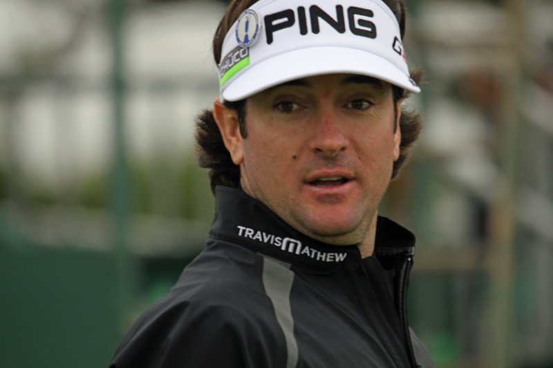 Bubba Watson in 2012